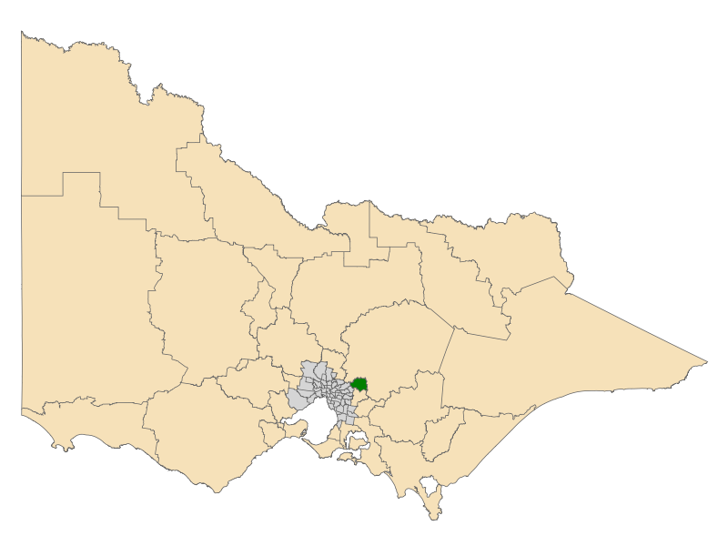 Location of the Electoral District of Evelyn (dark green) in the state of Victoria, Australia. These boundaries were used for the Victorian state election on 29 November 2014.